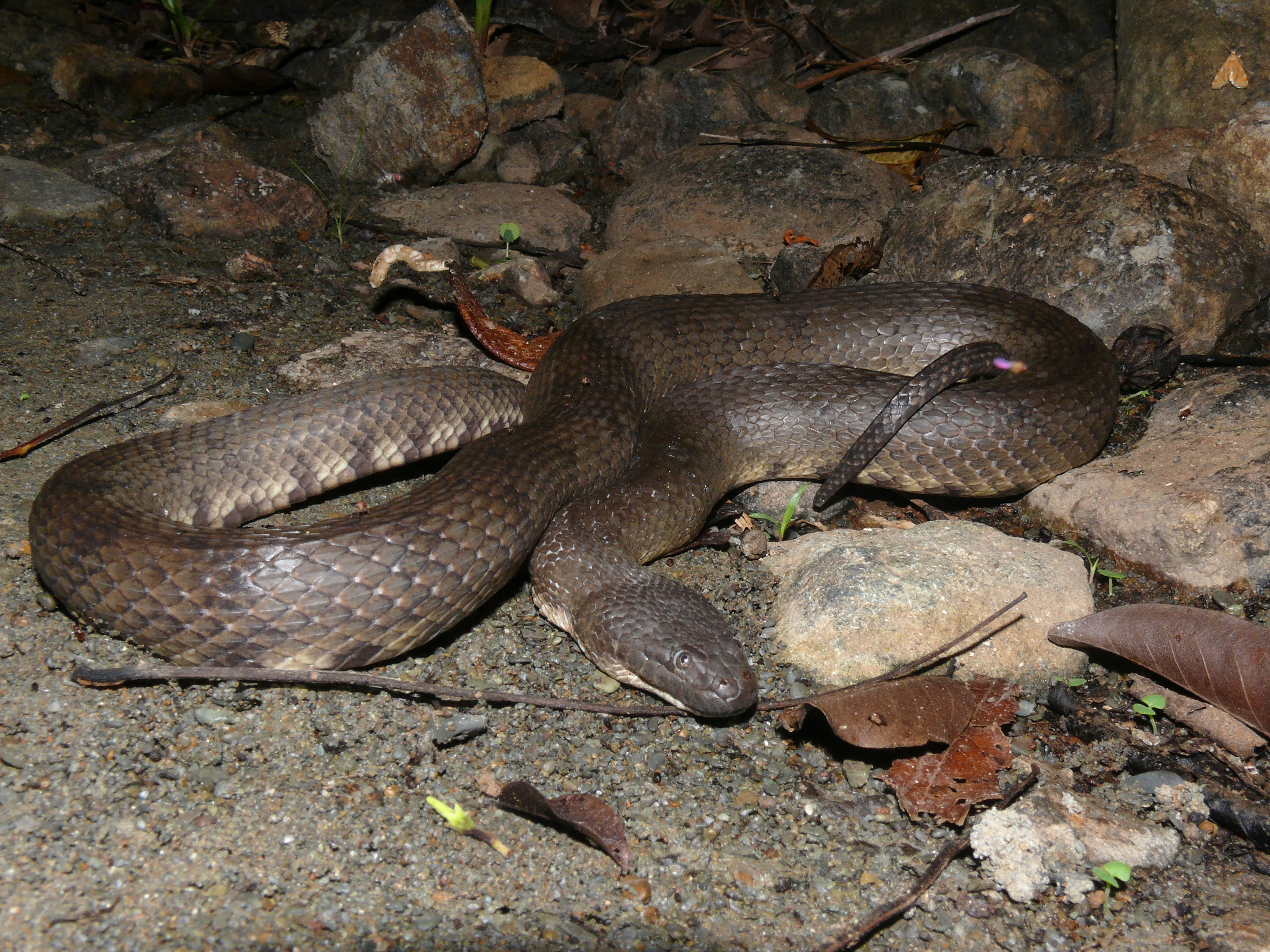 A dog-faced watersnake near a stream in Rutland, South Andamans